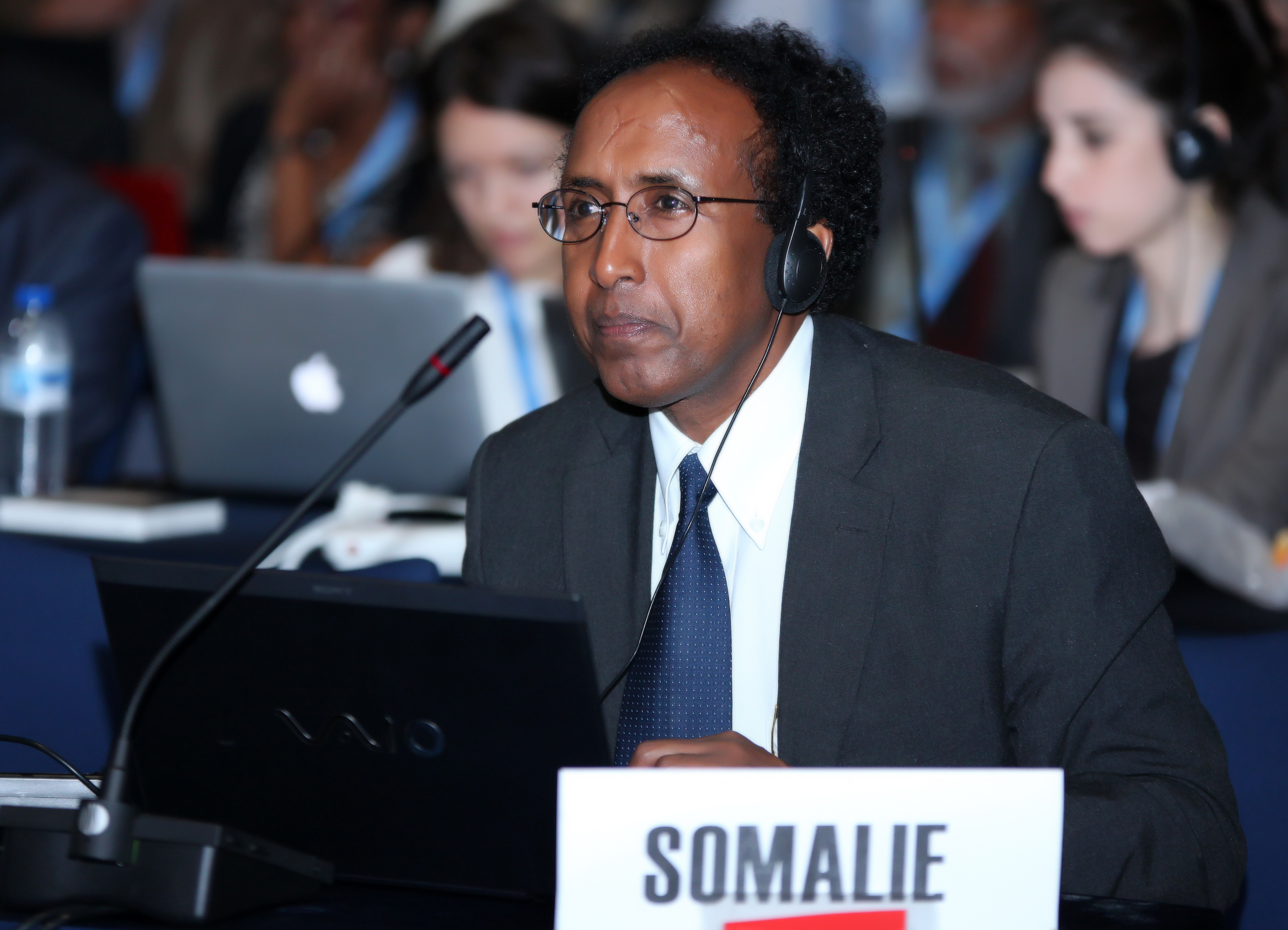 A Somali representative at the 2012 World Conference on International Telecommunications (WCIT) in Dubai.